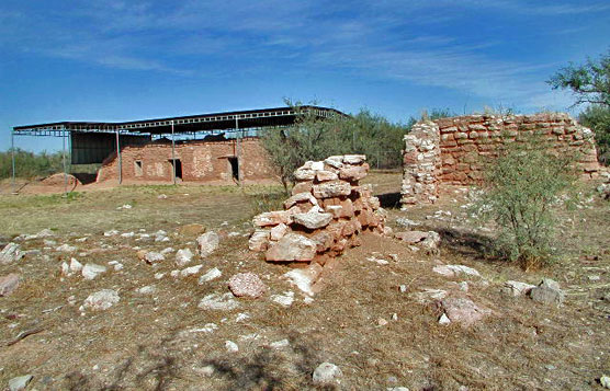 Ruins of the mission compound and church at Mission San Cayetano de Calabazas. Located within Tumacácori National Historical Park, Santa Cruz County, southern Arizona.